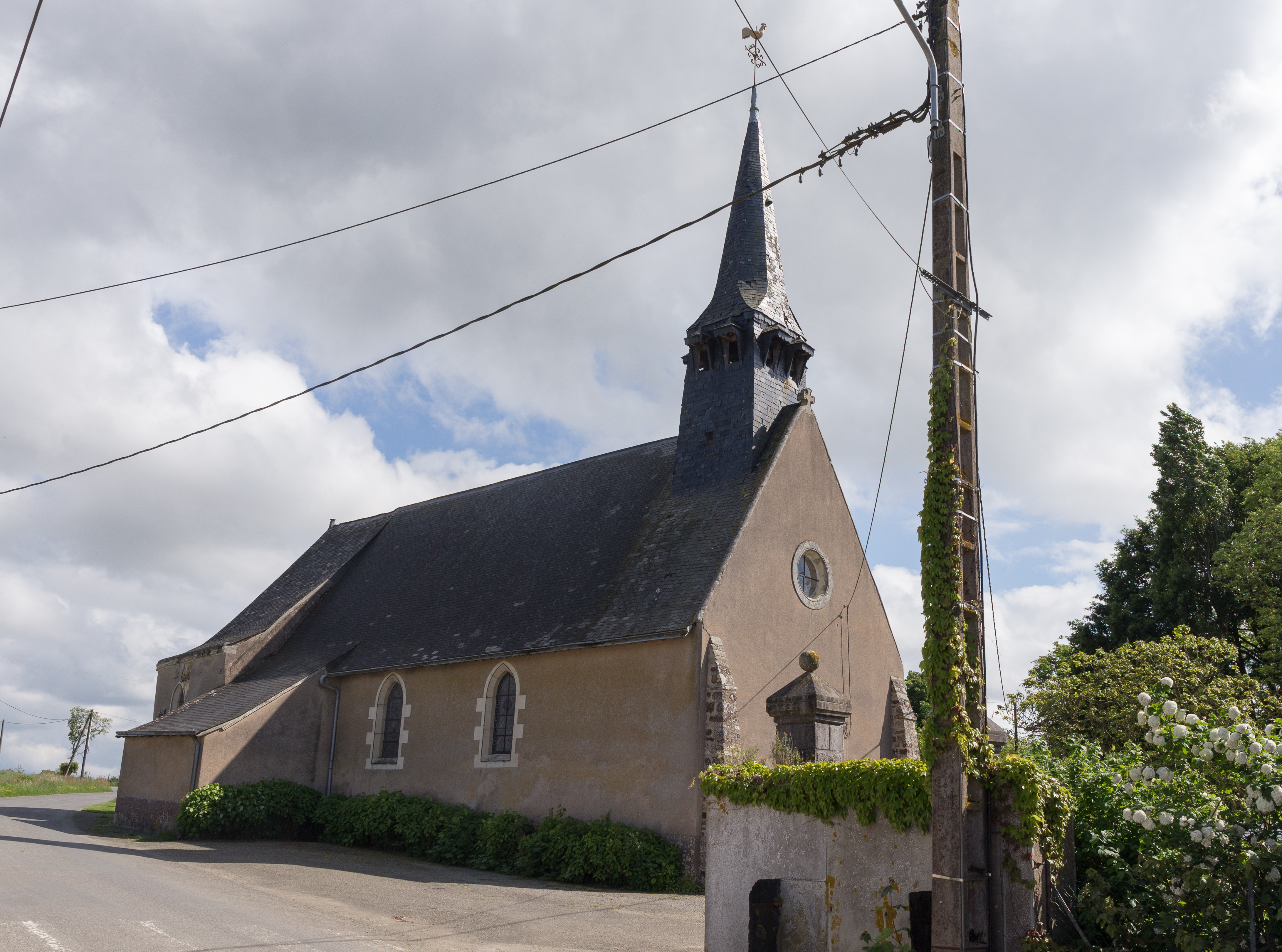 Church of Saint-Gault in Quelaines-Saint-Gault.